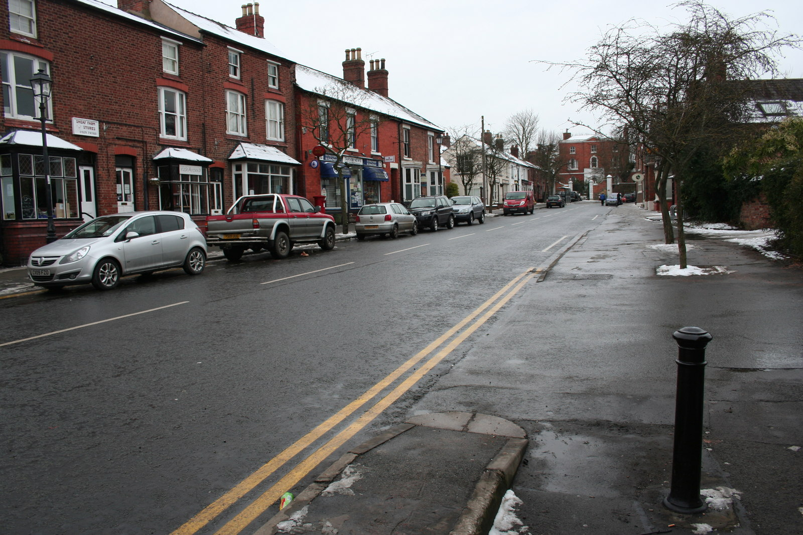 High Street, Tarvin From the George and Dragon public house.